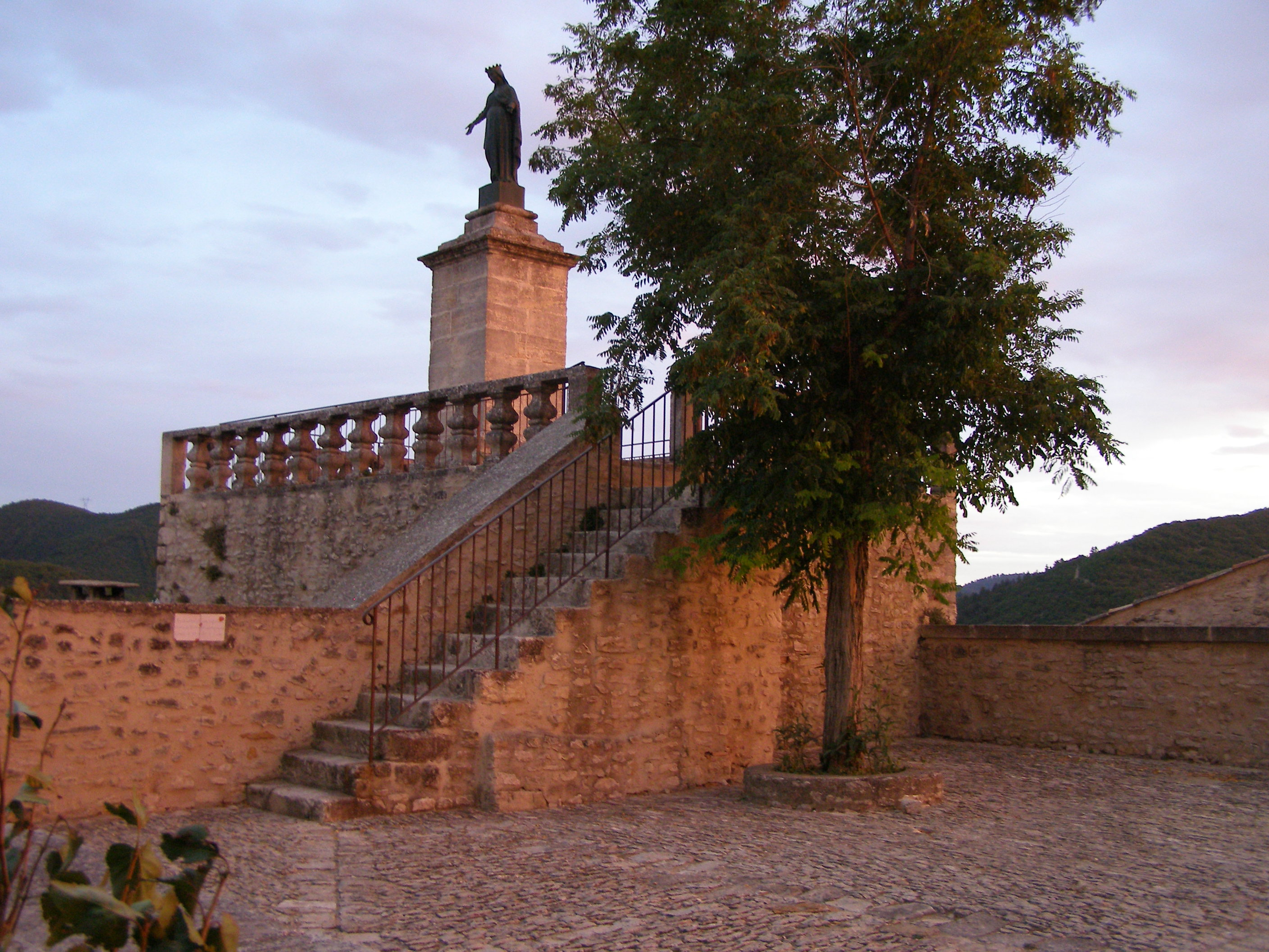 The Virgin of Dauphin (Alpes-de-Haute-Provence).